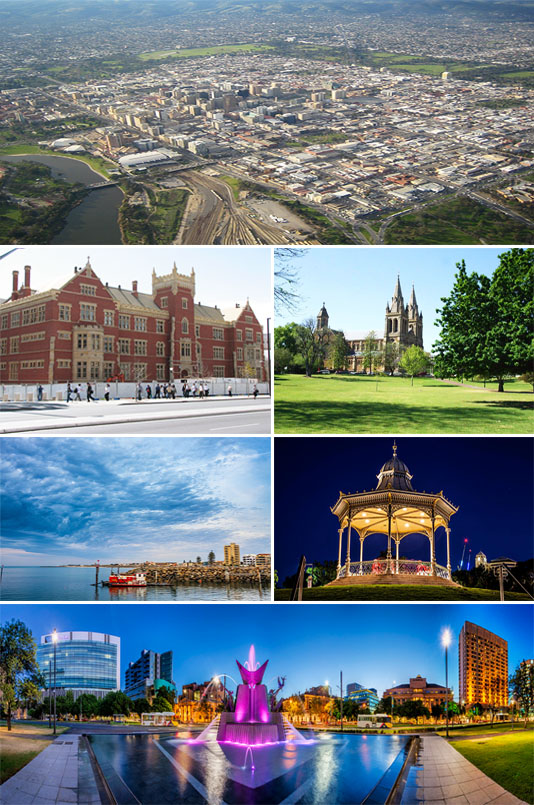 File:Adelaide DougBarber.jpg Adelaide, by Doug Barber File:UniSA North Terrace.jpg UniSA, by Al and Marie File:St Peter's Cathedral, Adelaide.jpg, St Peter's Cathedral, by Samantha File:After the Storm HDR (8250220384).jpg After the storm, by Ikhwan Zailan File:Adelaide rotunda.jpg Adelaide rotunda by Creolumen File:Victoria Square, central Adelaide.jpg, Victoria Square by Silveryway